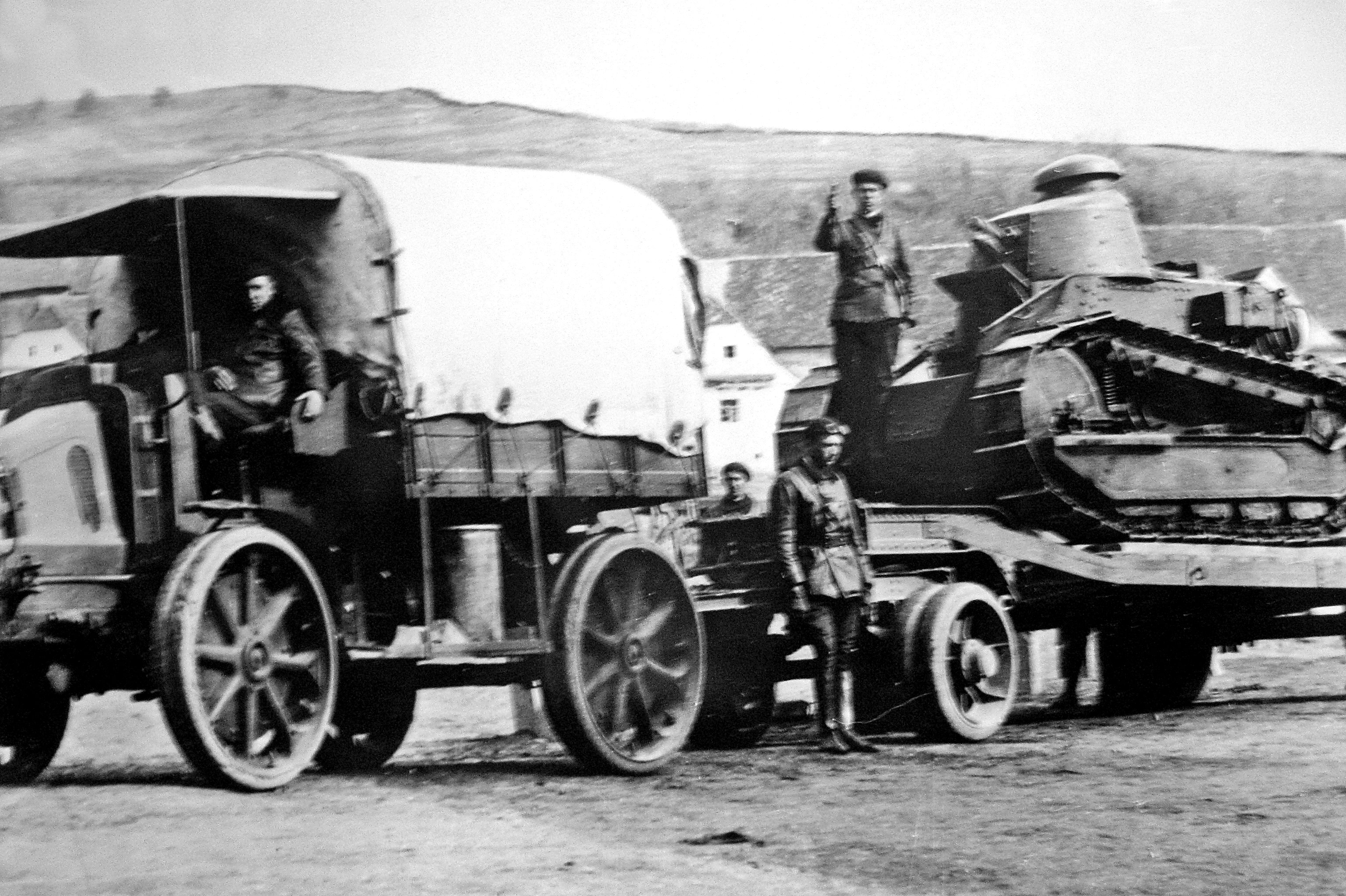 Photograph hosted inside the National Military Museum, București, Romania. ____________ © March 2010 | The creator of any original work owns the copyright of that work, which is the exclusive right to authorize copying and communication of their work.